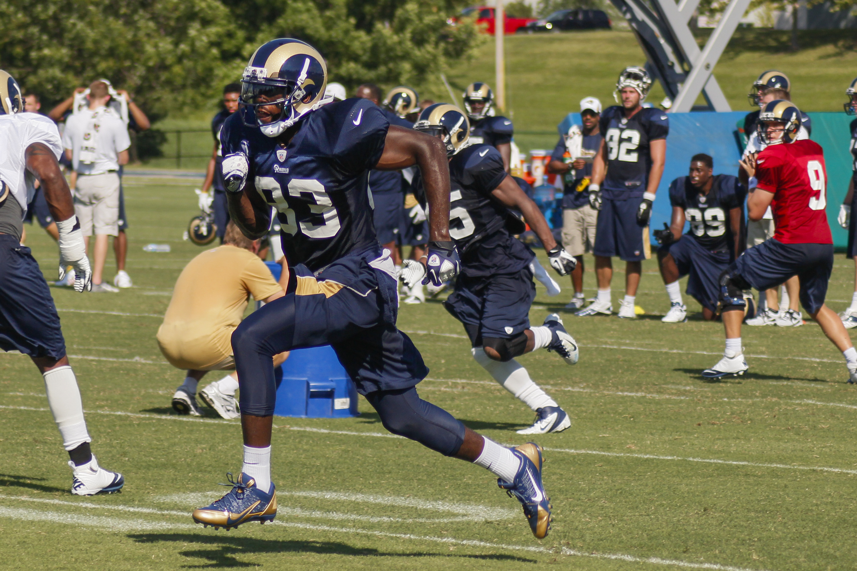 St.Louis Rams wide receiver Brian Quick. 2013 training Camp. Earth City Mo